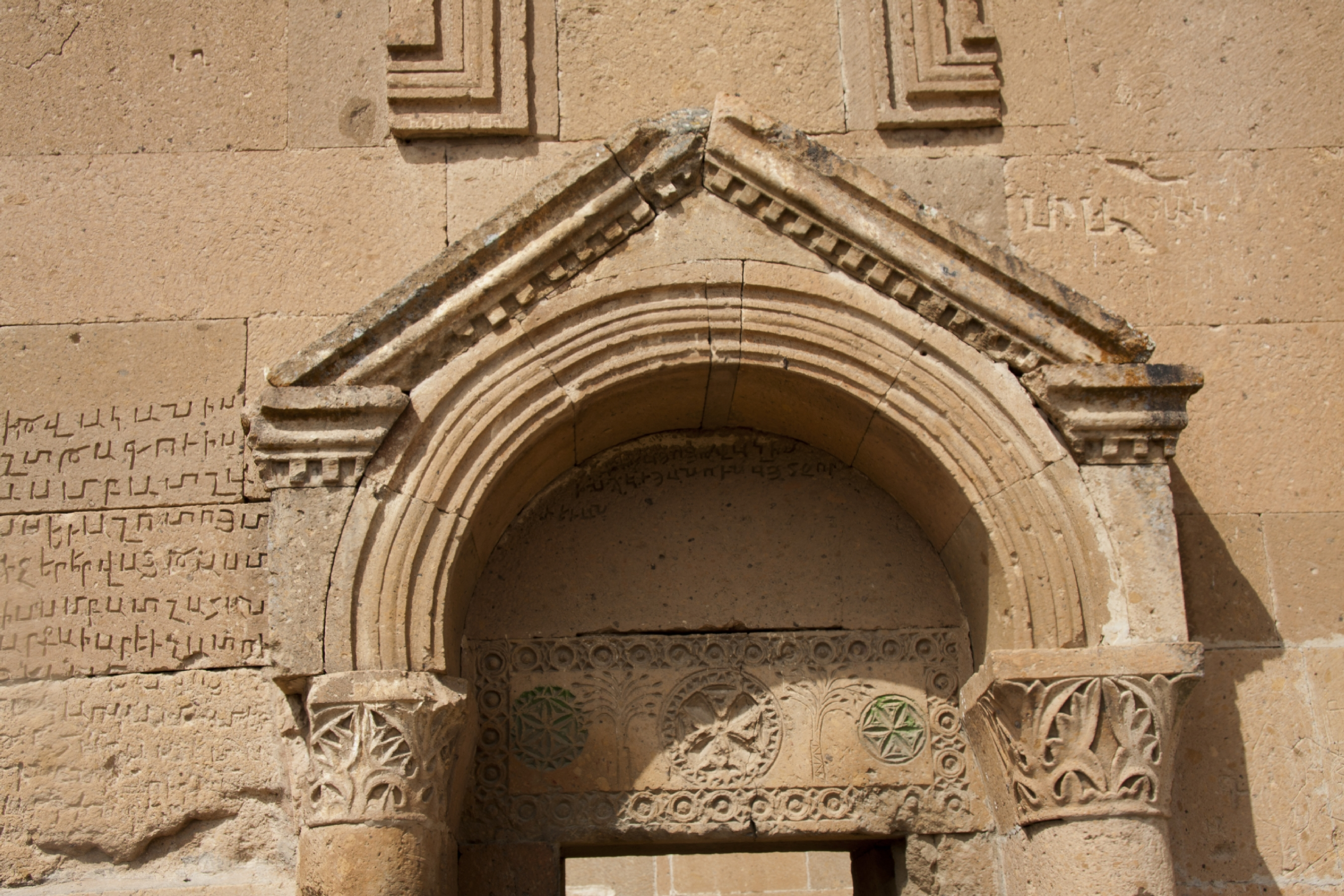 Երերույքի Տաճար 13/2.7